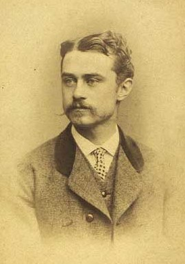 August Frederik "Gustav" Wedell-Wedellsborg (1844-1923), Danish Baron and army officer